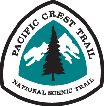 Pacific Crest Trail Logo.